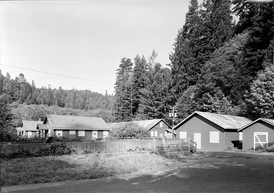 National Register of Historic Places in California Prairie Creek Fish Hatchery, Hwy. 101, Orick, Humboldt County, CA; Hatchery complex looking northwest by 295 degrees.